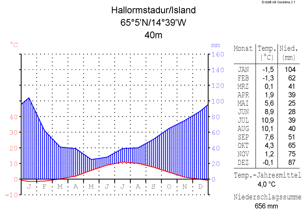 climate chart in the format by Walter and Lieth, metric, °Celsisus and millimeters, made with Geoklima 2.1